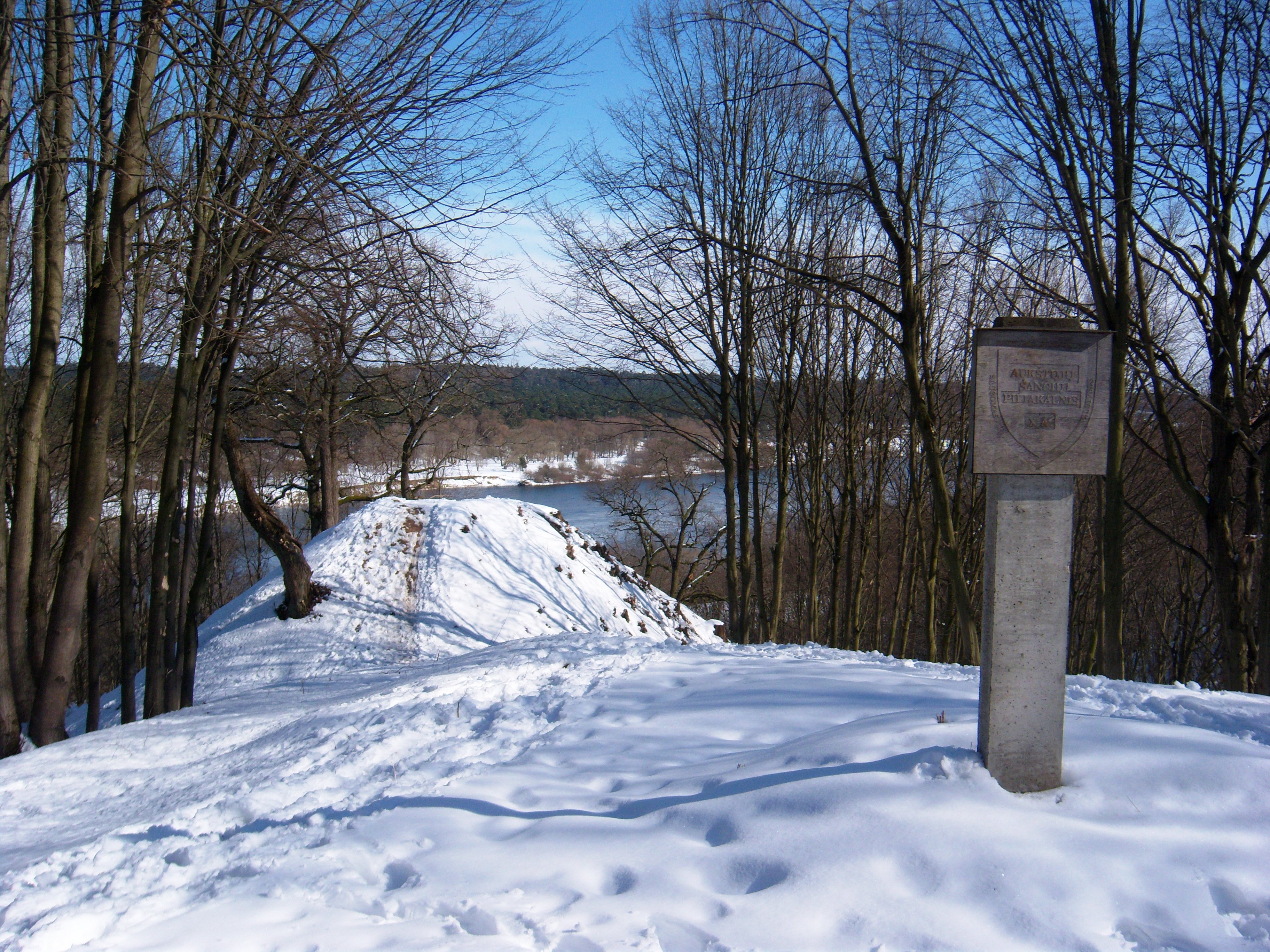 Aukštieji Šančiai hillfort, Kaunas, Lithuania